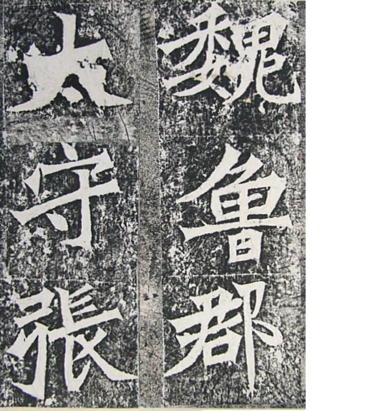 Rubbing of Top part of Zhang Meng Long bei Shangtong, China Rubbing is 19th century The Stele ACE522